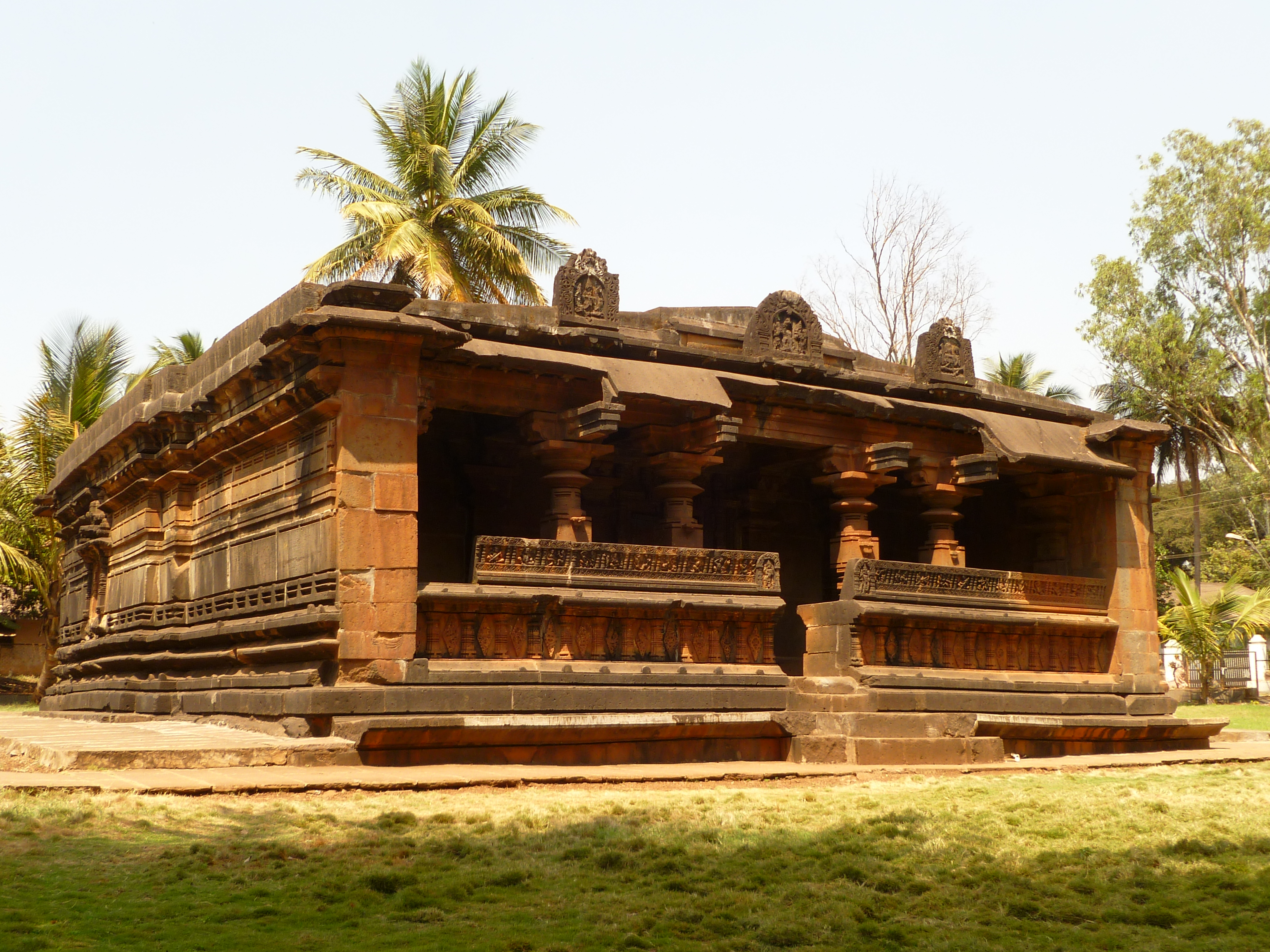 CHikka Basadi Belagavi. Karnataka(North), India